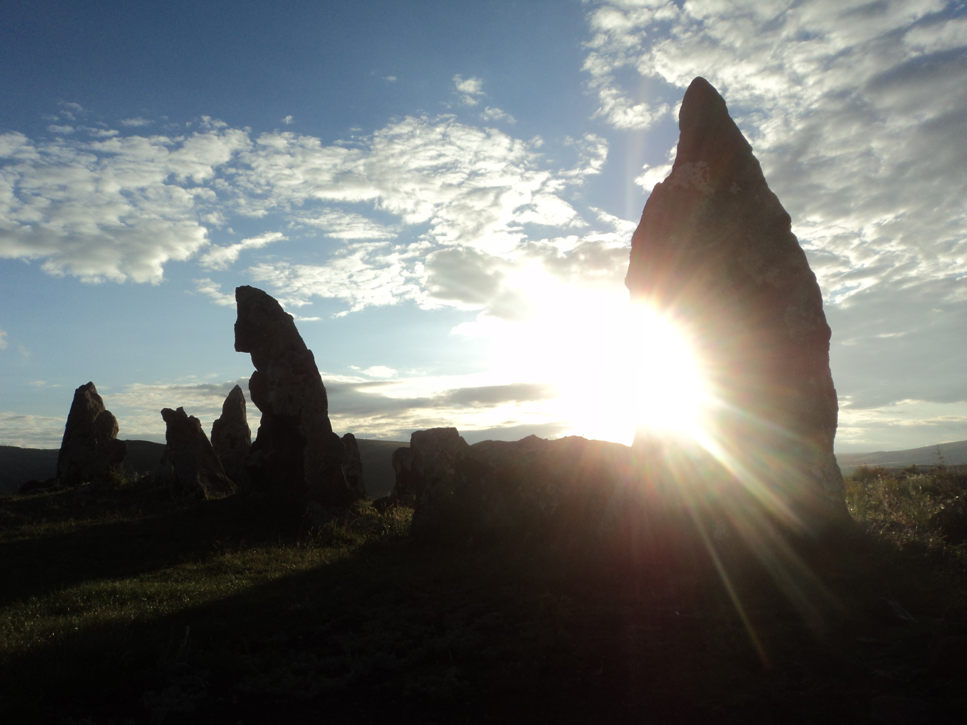 Qarahunj 6/6.1